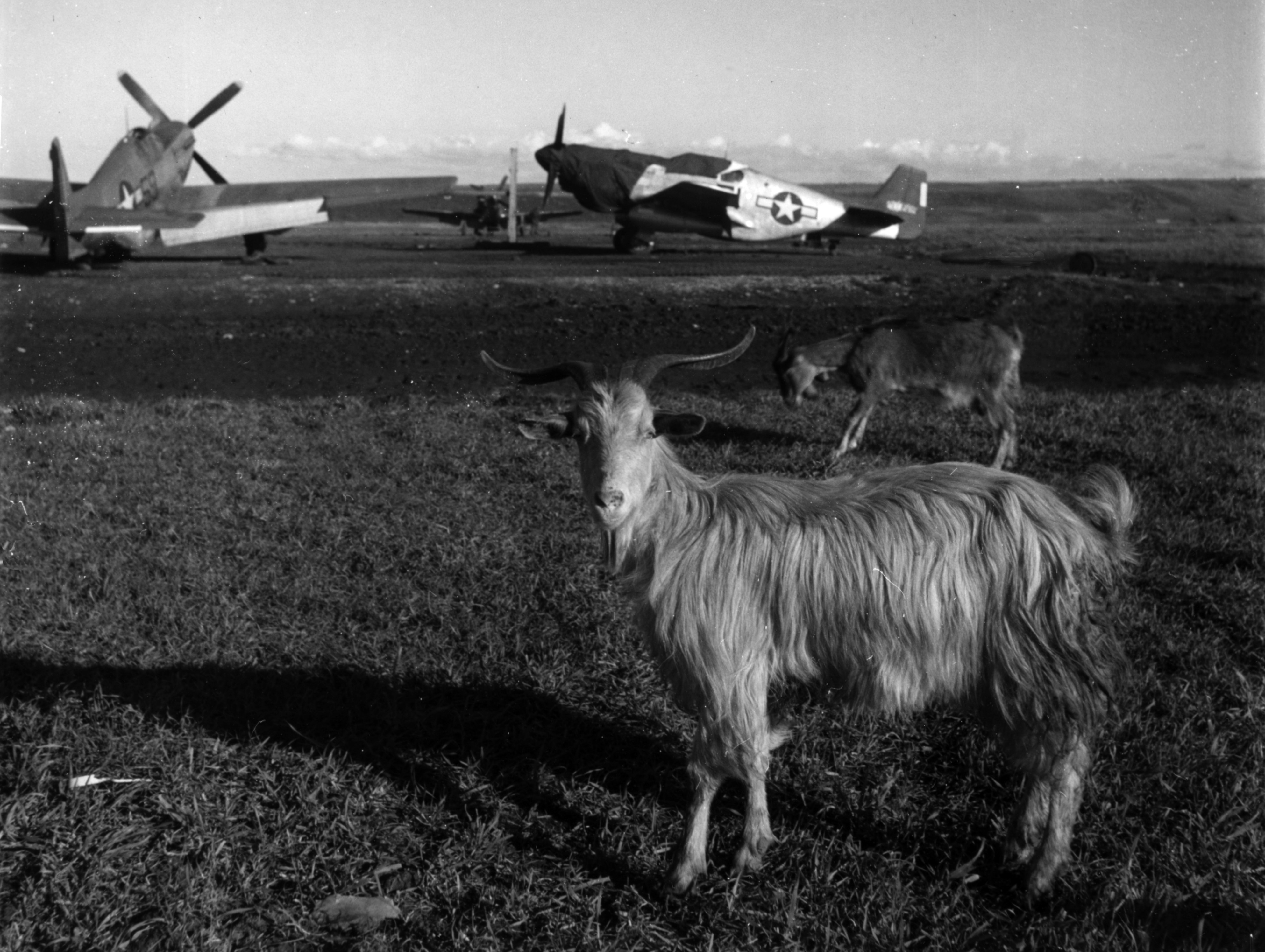 U.S. Army Air Forces North American P-51C Mustang fighters from the 332nd Fighter Group at Ramitelli airfield, Foggia, Italy, in March 1945 with goats.